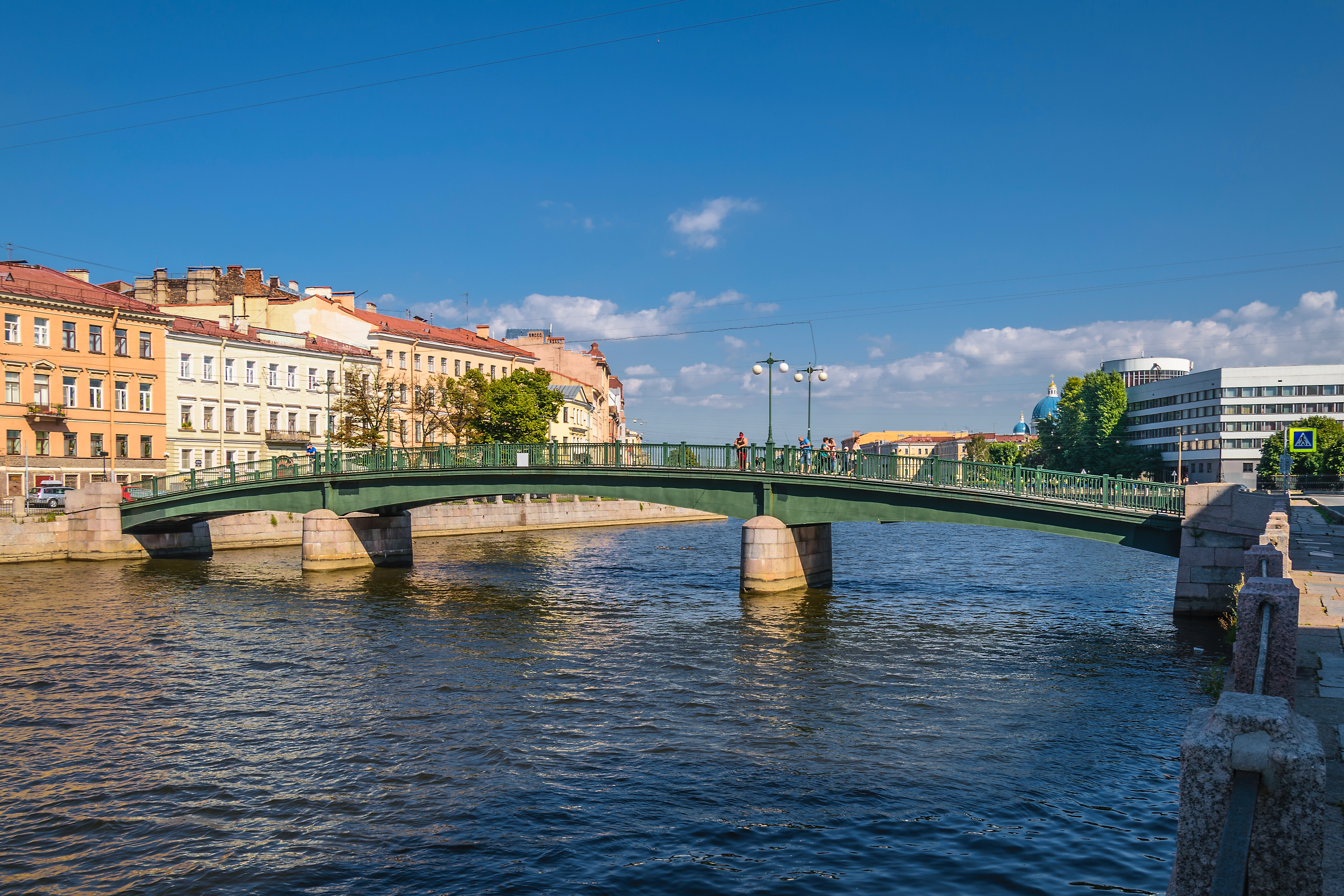 Angliysky Bridge in Saint Petersburg